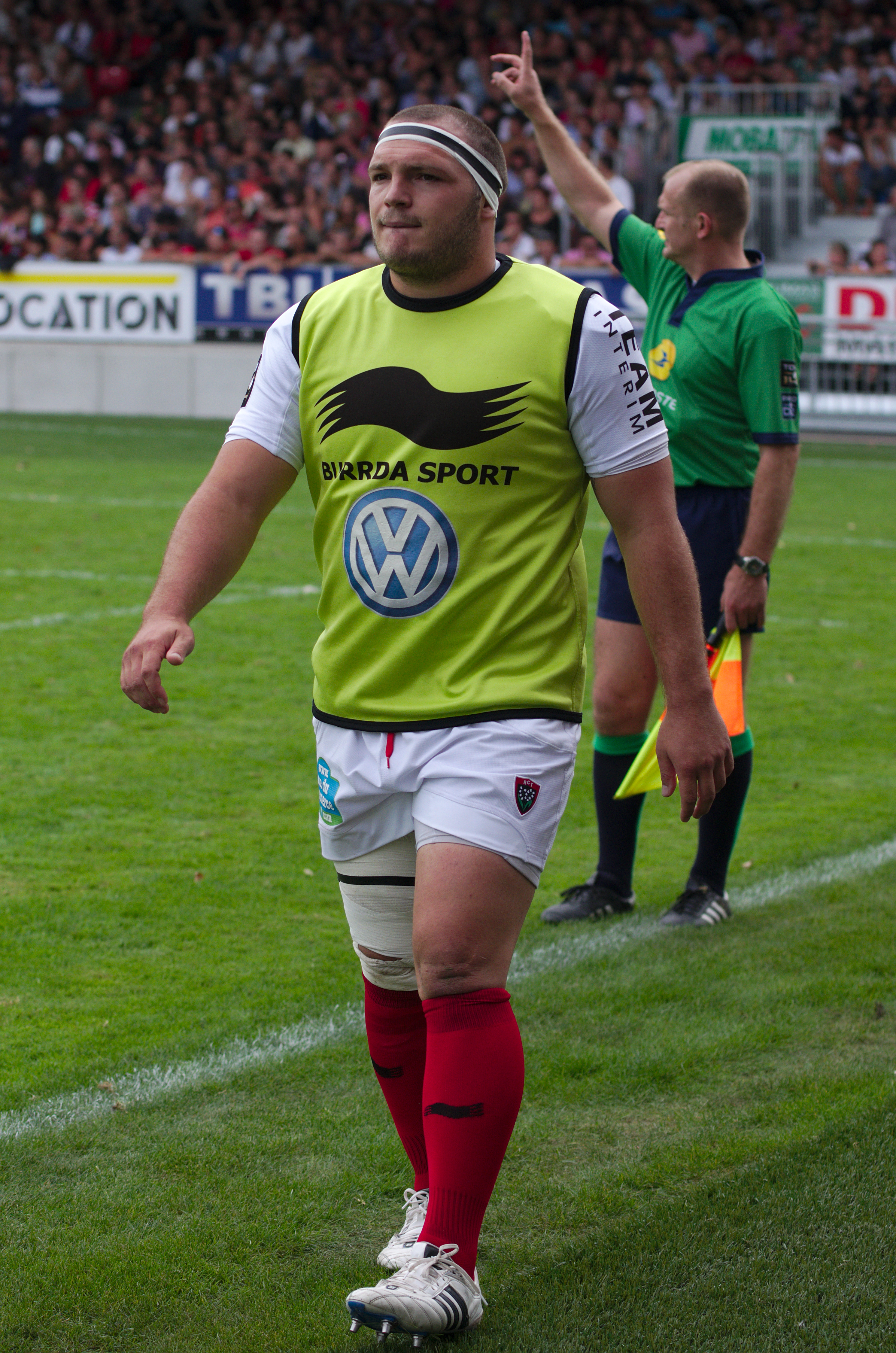 USO - RCT - 28-09-2013 - Stade Mathon - Jean-Charles Orioli